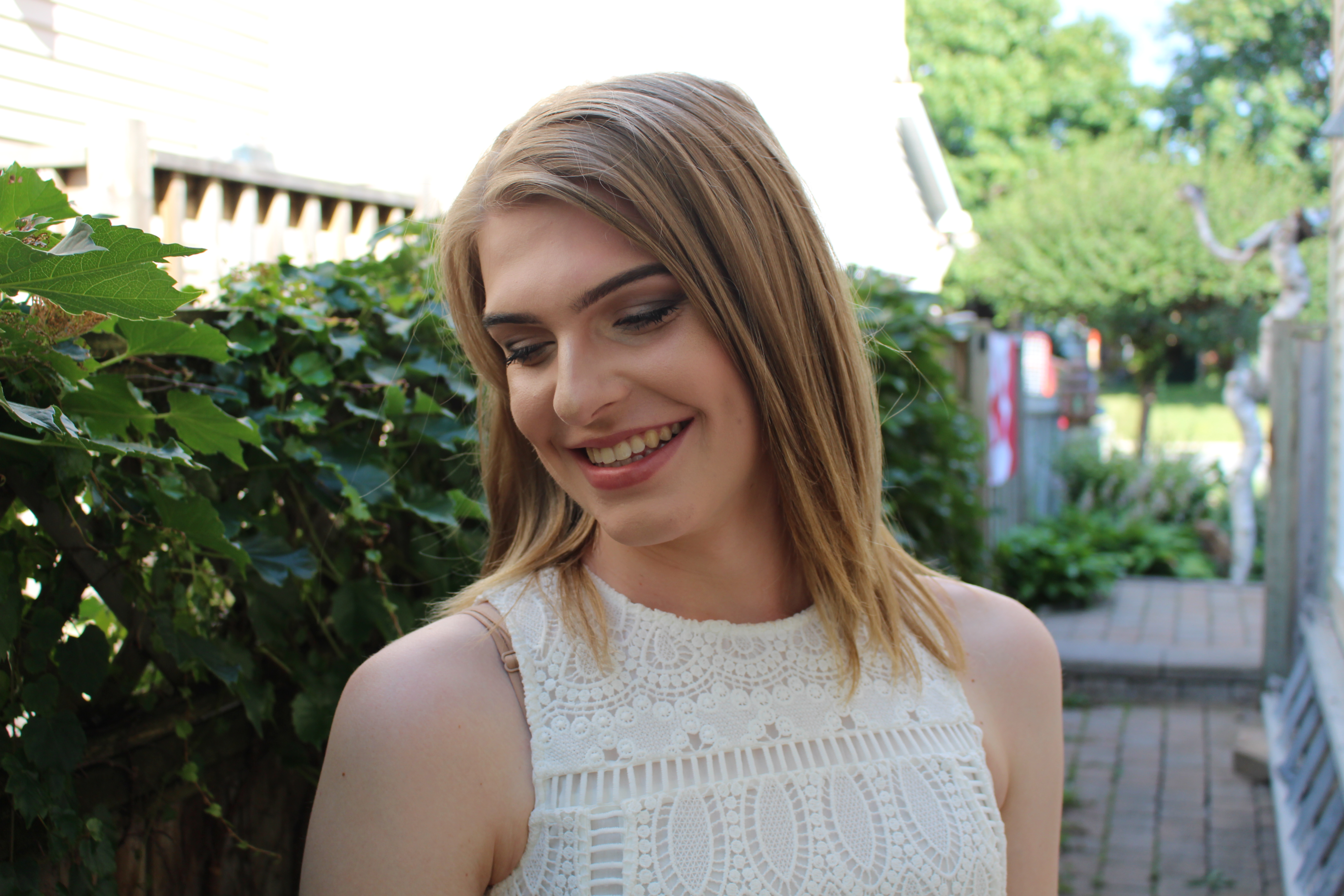 Gabrielle Diana photographed on August 3rd, 2016.